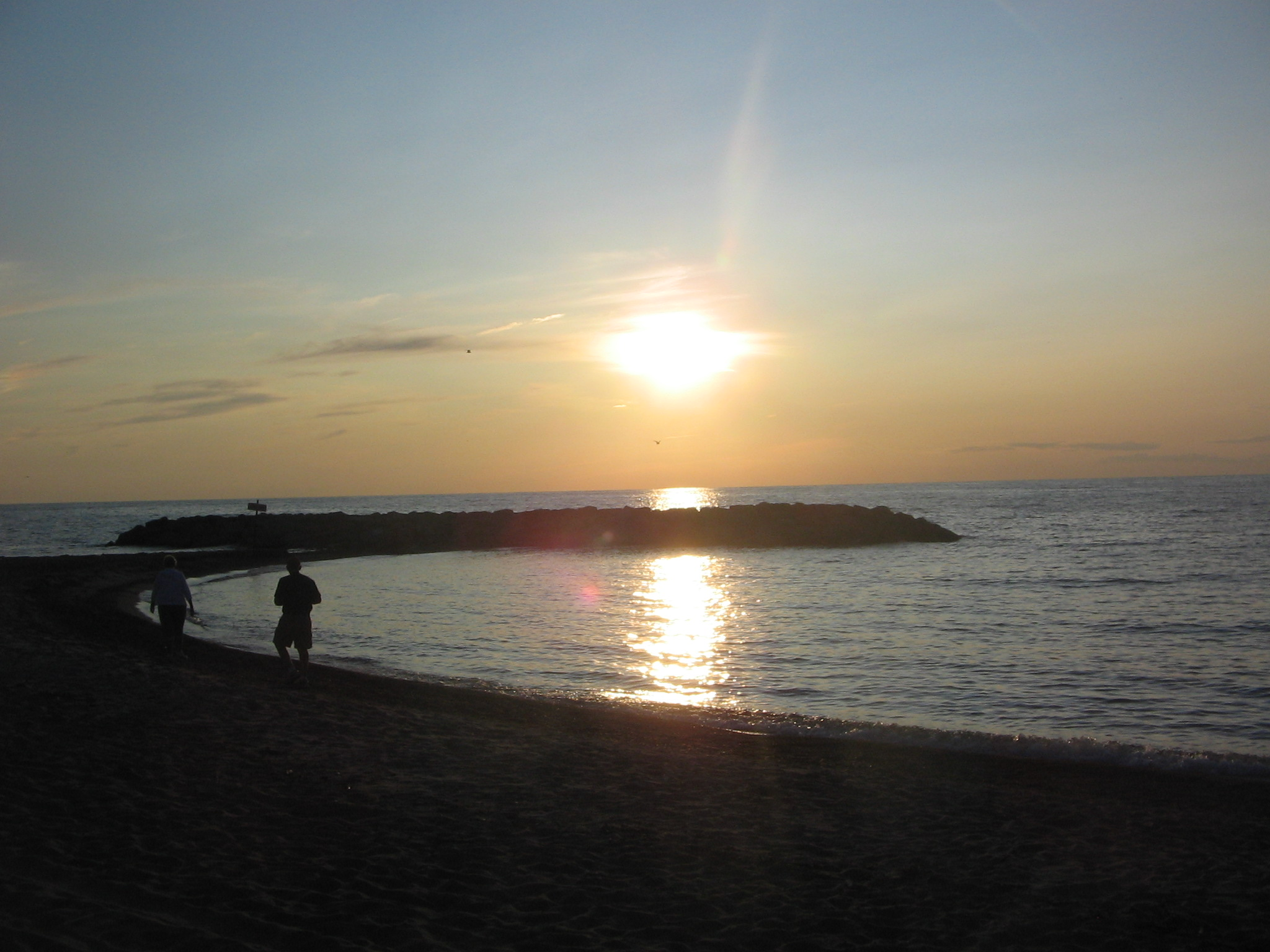 Sunset over Lake Erie from the Presque Isle Lighthouse at Presque Isle State Park in Erie County, Pennsylvania, United States